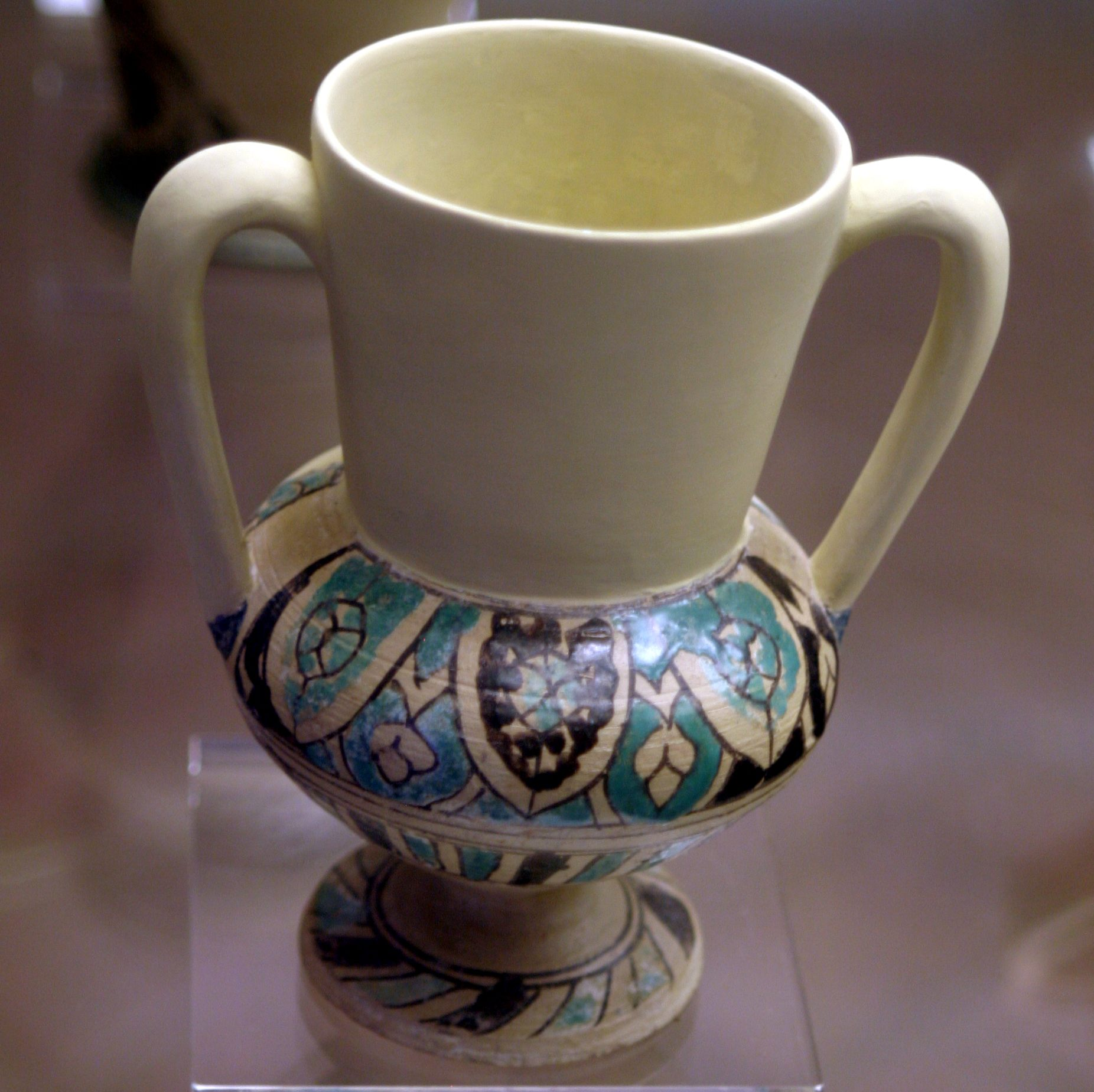 Ceramic object, Alcazaba of Malaga, Spain